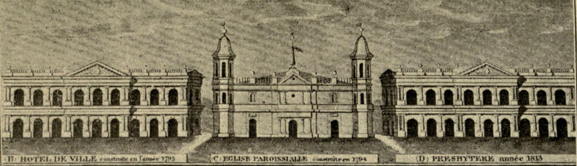 New Orleans: Cabildo, St. Louis Cathedral, and Presbytre on Place d'Armes (later Jackson Square) as they looked in the 1810s. Listed with year of completion of construction: " Hôtel de ville construite en l'année 1795 ; Église paroissialle construite en 1794 ; Presbytère année 1813